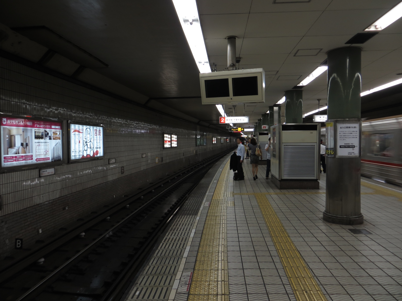 Platform from Nakatsu Station (Osaka Municipal Subway).